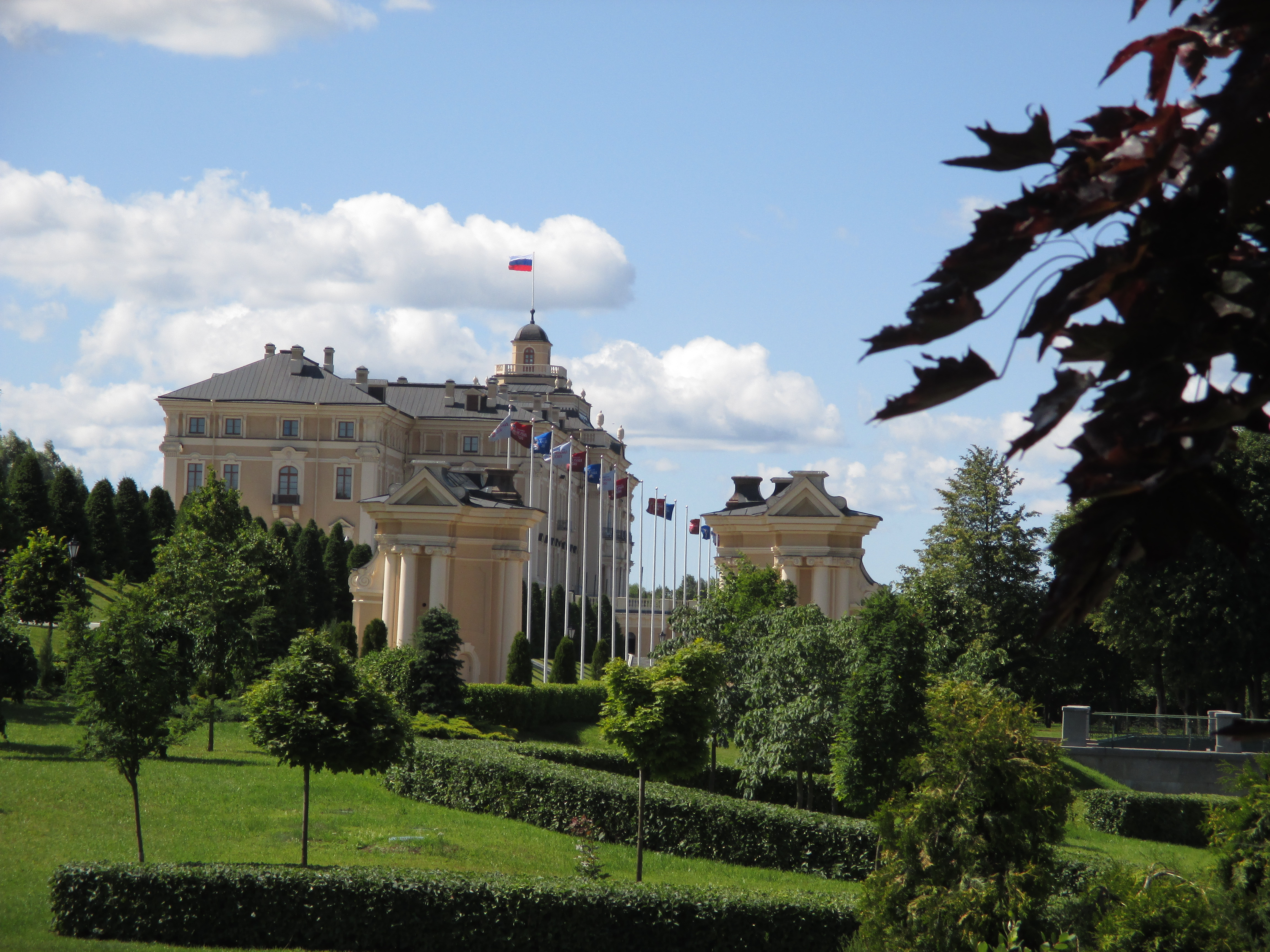 Constantine Palace in Strelna (Saint Petersburg) - view of the eastern facade